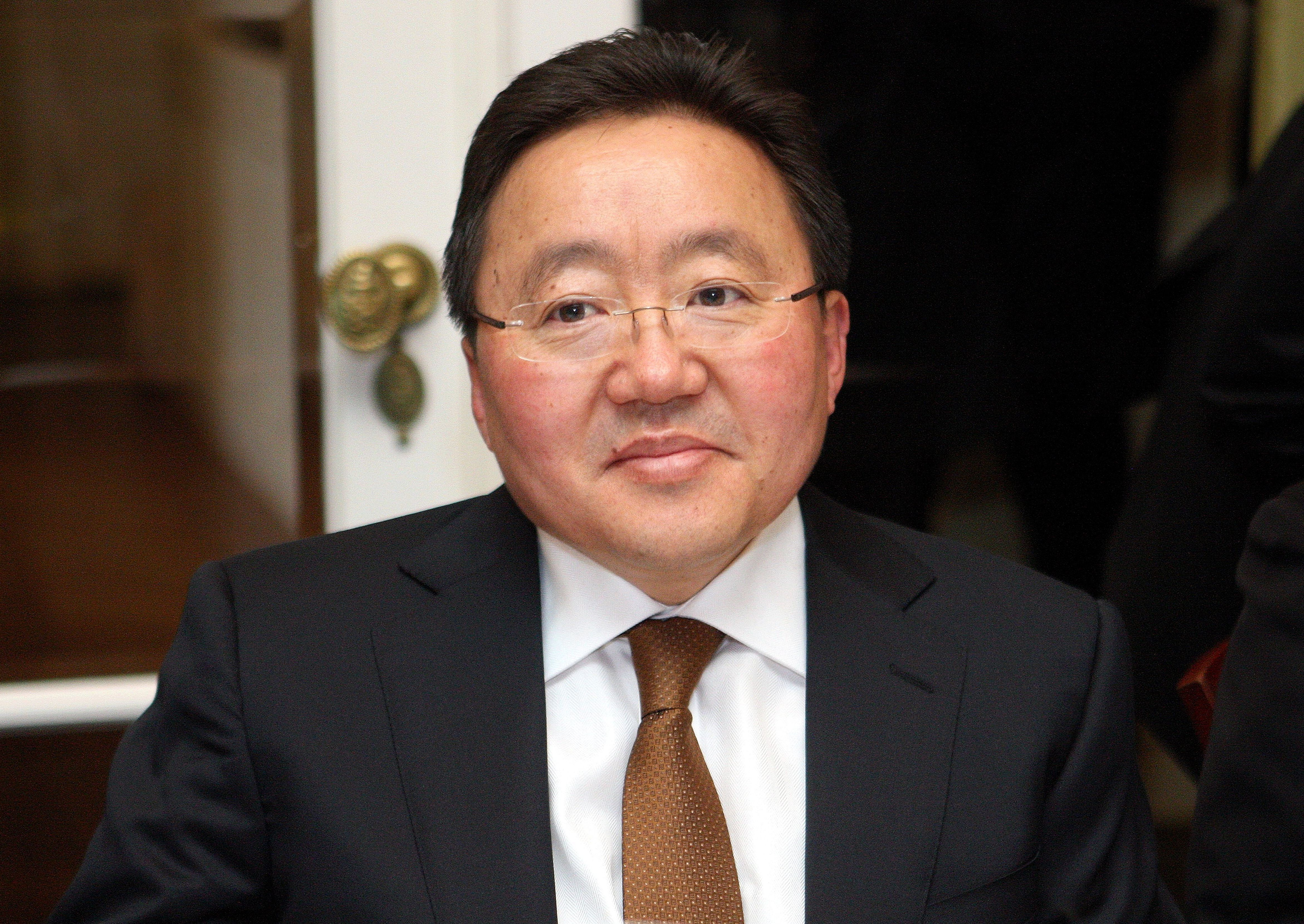 President of Mongolia Tsakhiagiin Elbegdorj in the Polish Senate